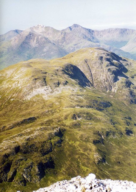 Mam na Gualainn taken from Stob Ban with Beinn a Bheithir behind.